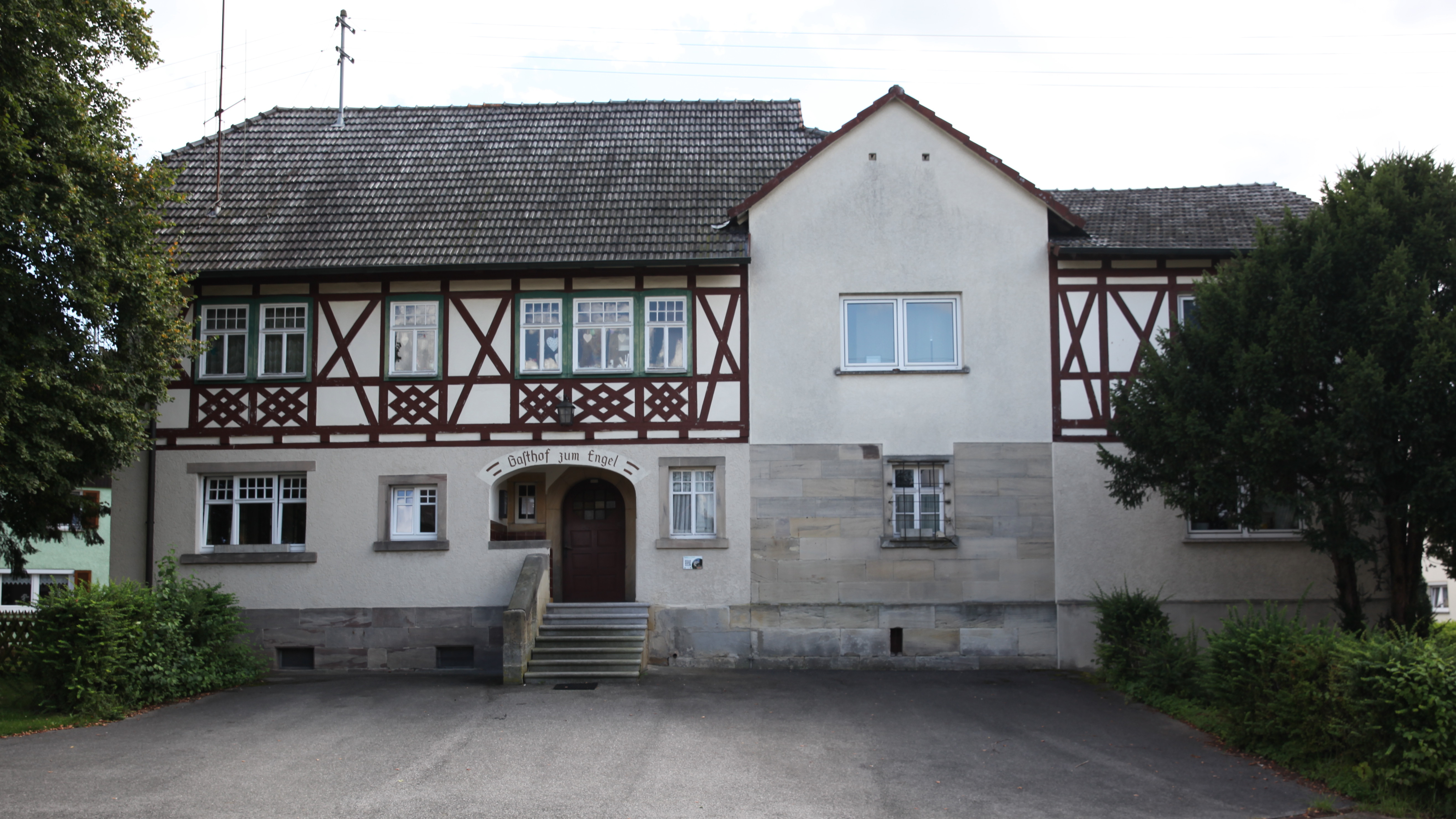 Gasthof Zum Engel in Trainau